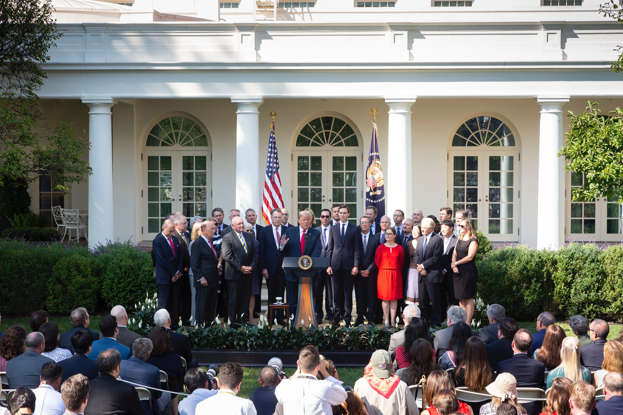 President Donald J. Trump, joined by Cabinet members, legislators and senior White House advisers, announces completion of the United States-Mexico-Canada Agreement during a press conference in the Rose Garden of the White House | October 1, 2018